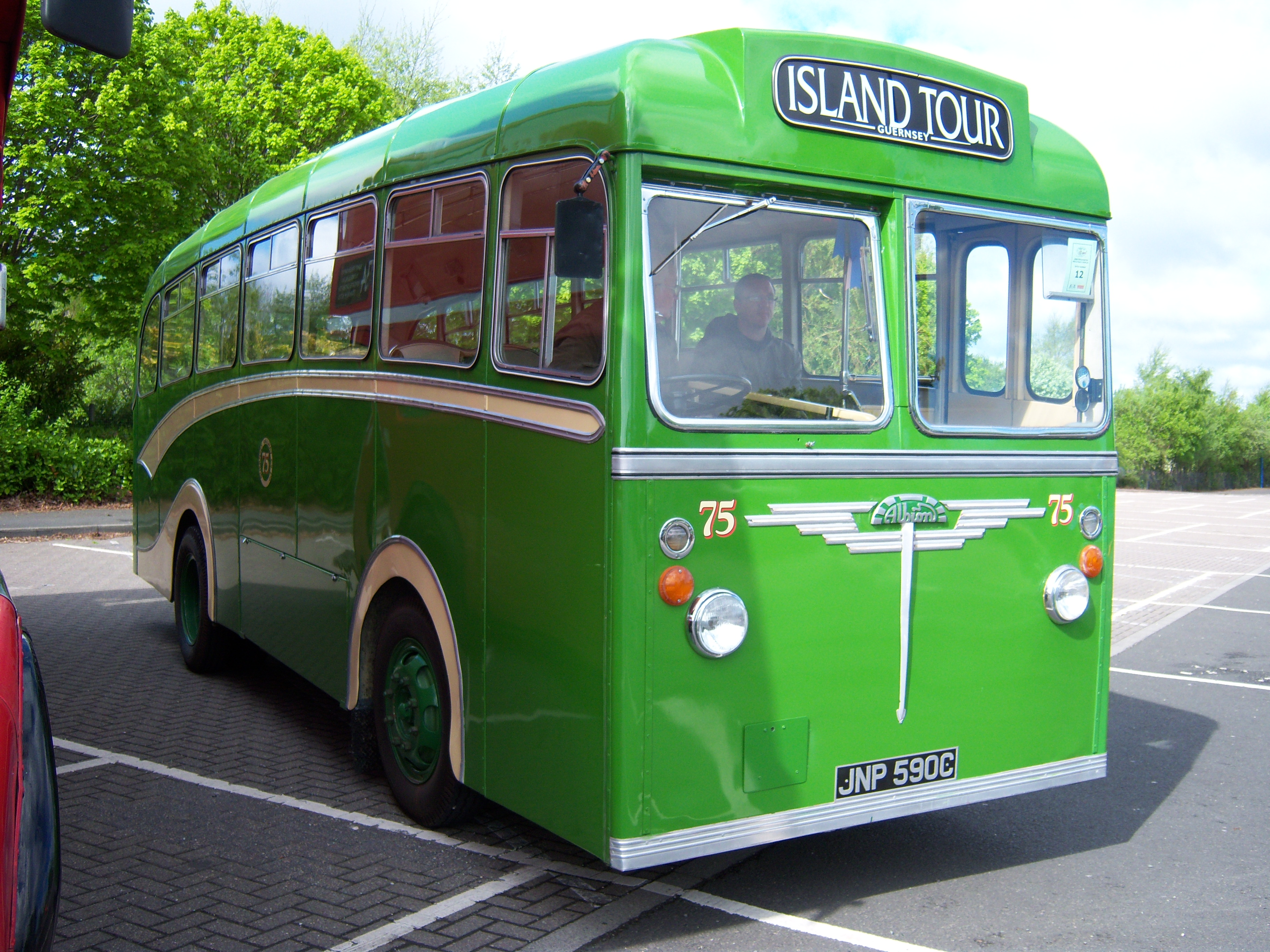 Preserved bus on display at the 2009 Metrocentre bus rally.